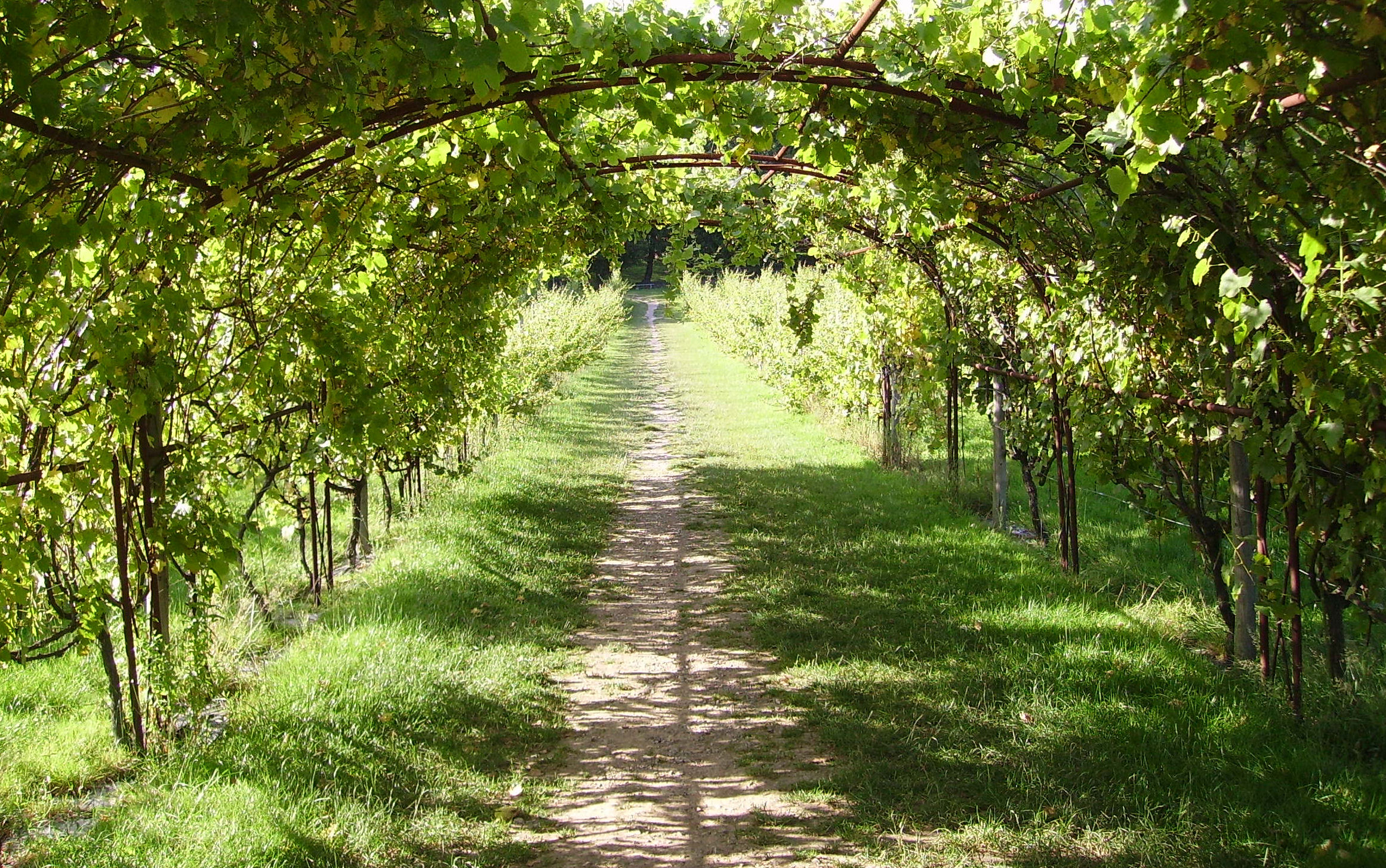 view of Groombridge Place near Groombridge, United Kingdom